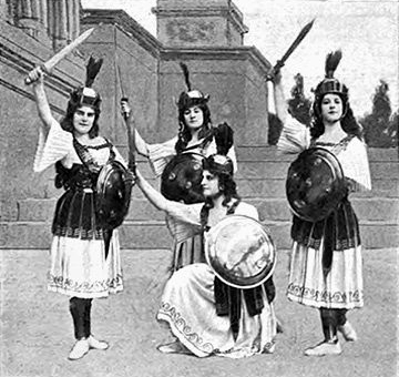 Nikolai Rimsky-Korsakov - Servilia - martial dances, Maria Petipa as Menada, 1902